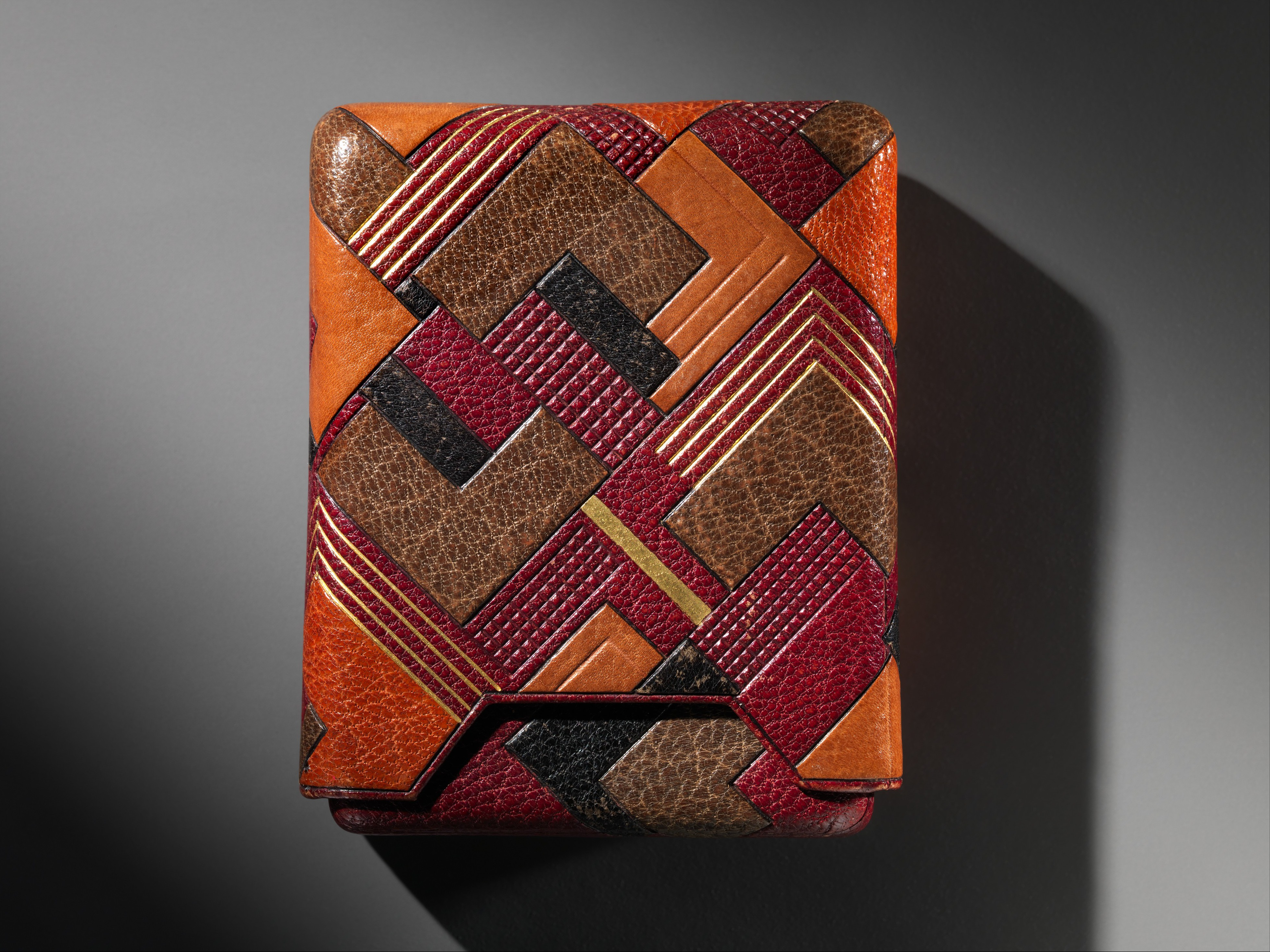 Cigarette case designed by Pierre Legrain.